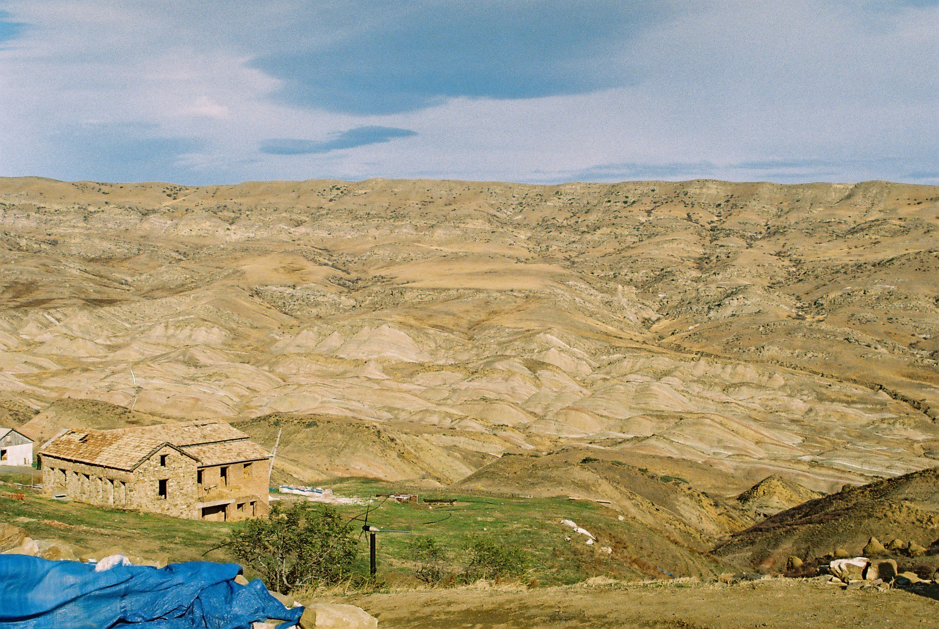 David Gareja